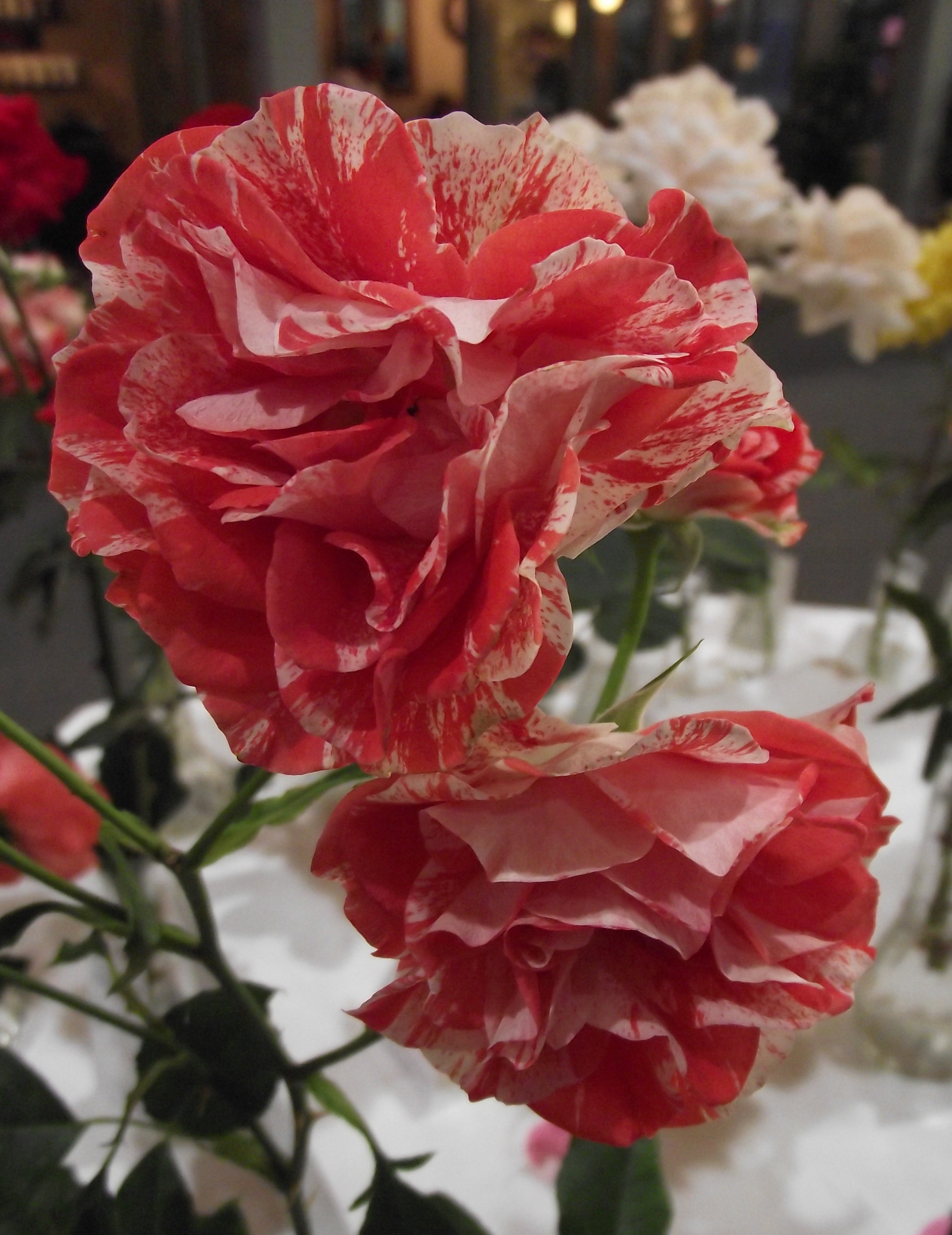 Rosa 'Tiger Tail' at the San Diego County Fair, California, USA. Identified by exhibitor's sign.